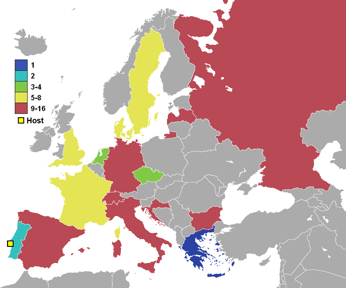 UEFA Euro 2004 final team ranking, showing: Winner (dark blue) Runner-up (light blue) Semifinalists (light green) Quarterfinalists (yellow) Group stage (red) Yellow square is host nation (Portugal).